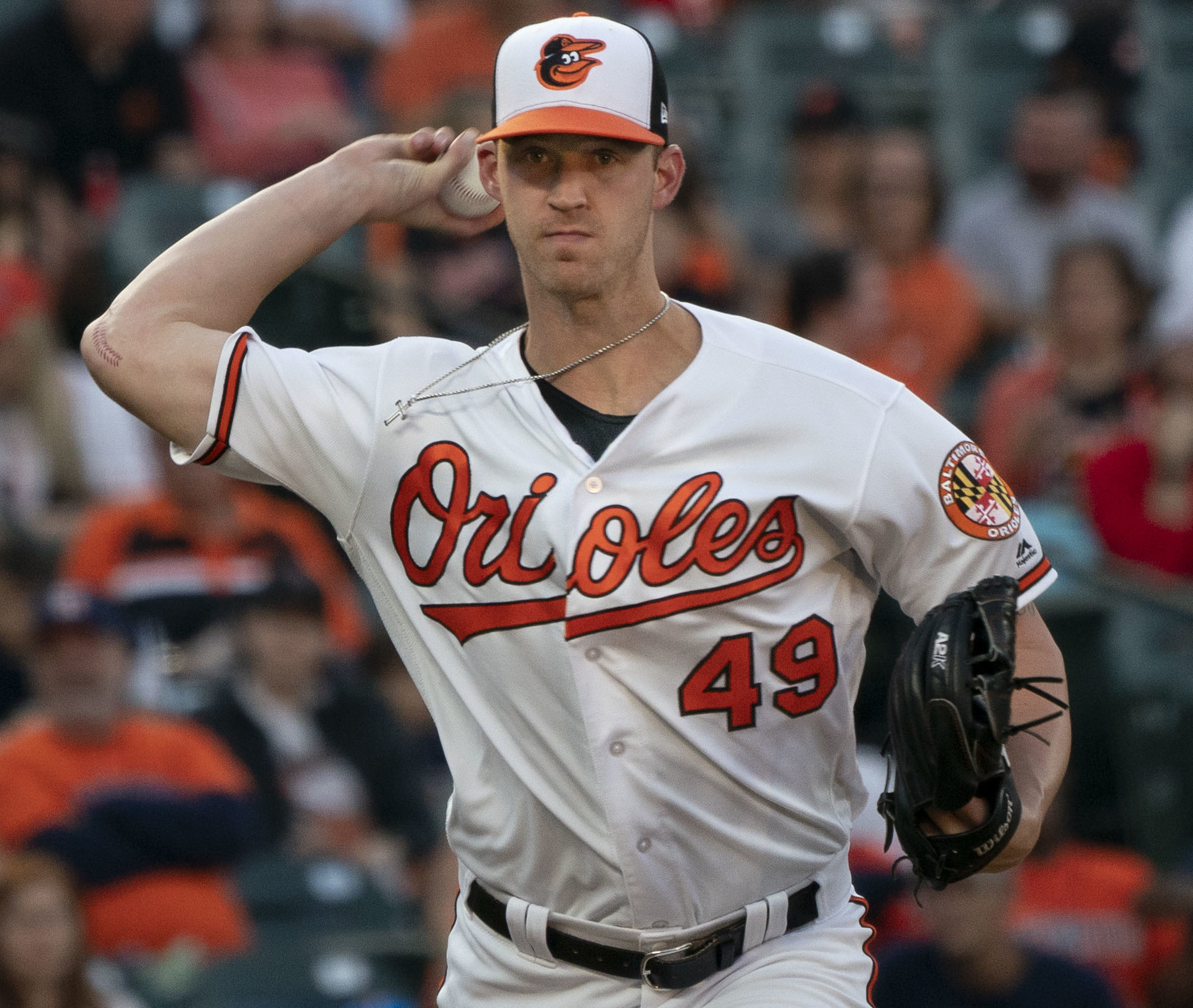 Cody Carroll with the Baltimore Orioles at Camden Yards in Baltimore during a September 2018 game.